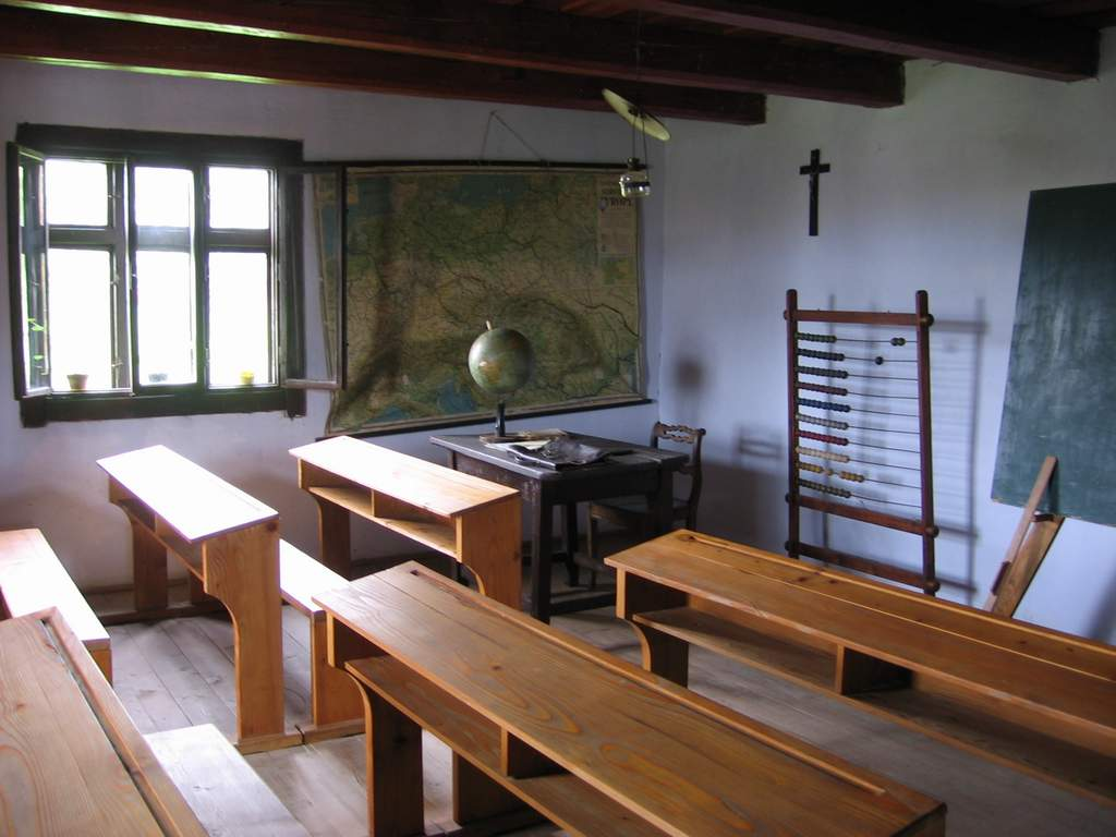 Inside a classroom in the school in Svidnik skansen.